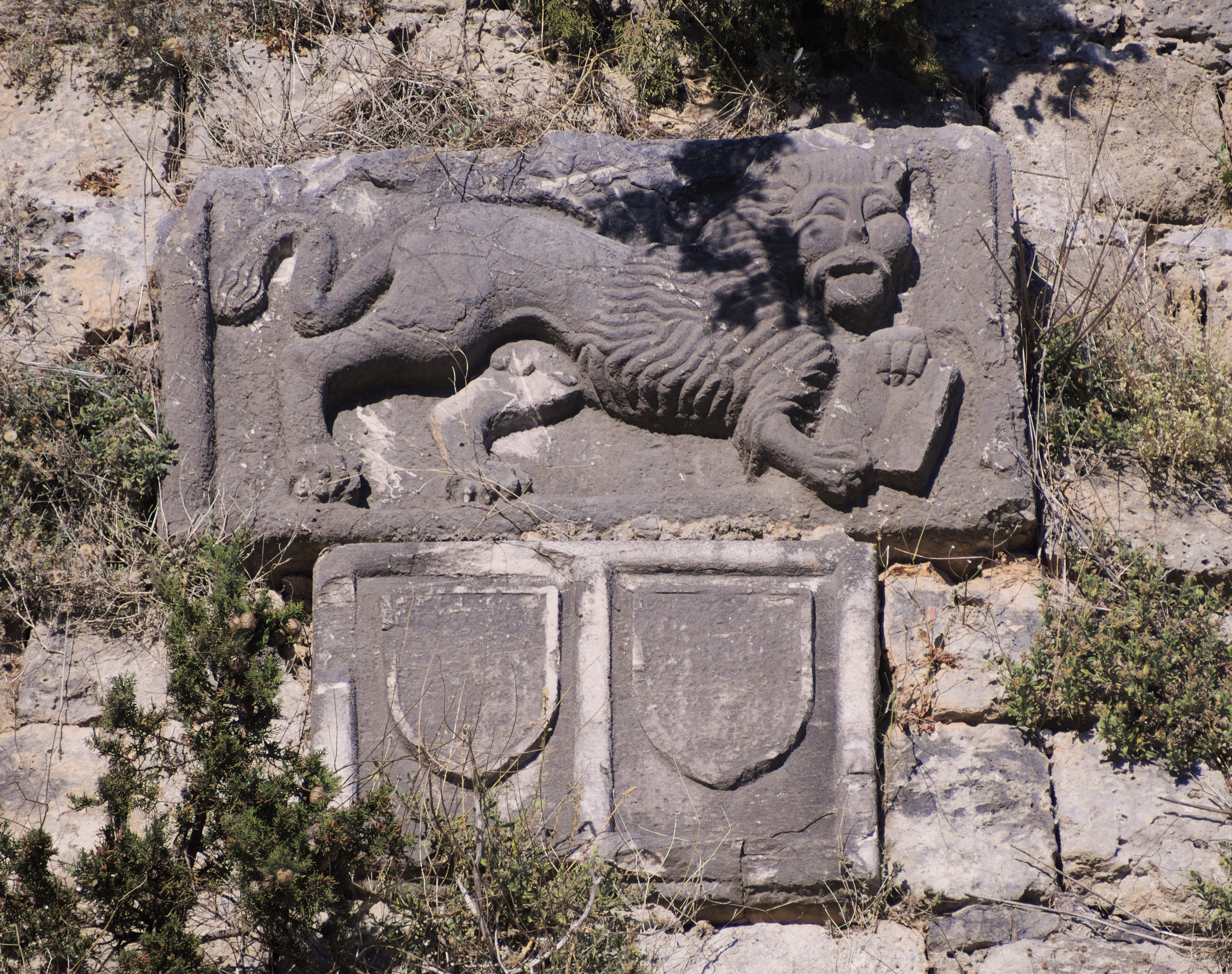 Relief of the lion of Saint Mark at the south gate of castello di Toro (part of Akronafplia).